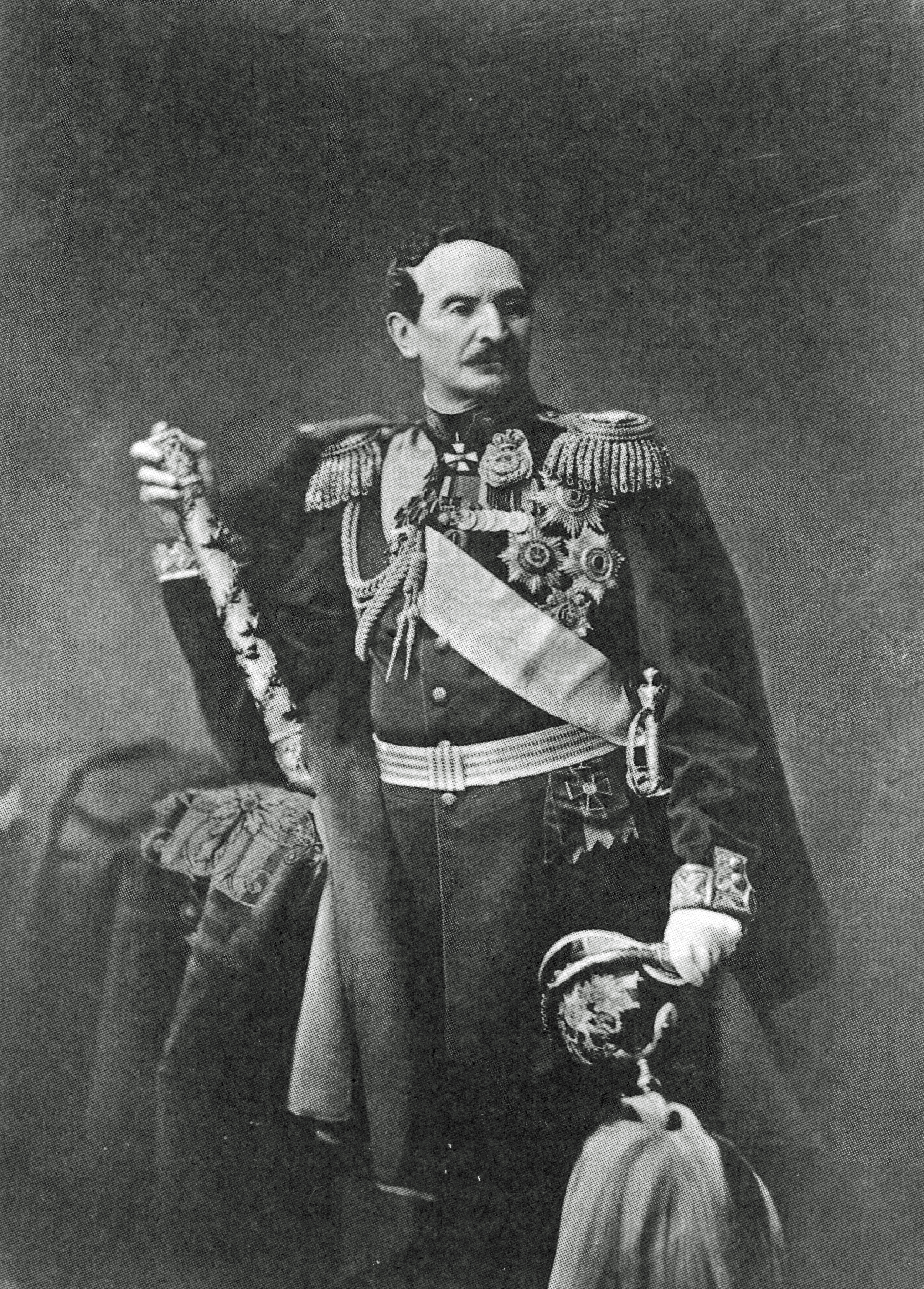 Count Frederik Vilhelm Rembert von Berg.